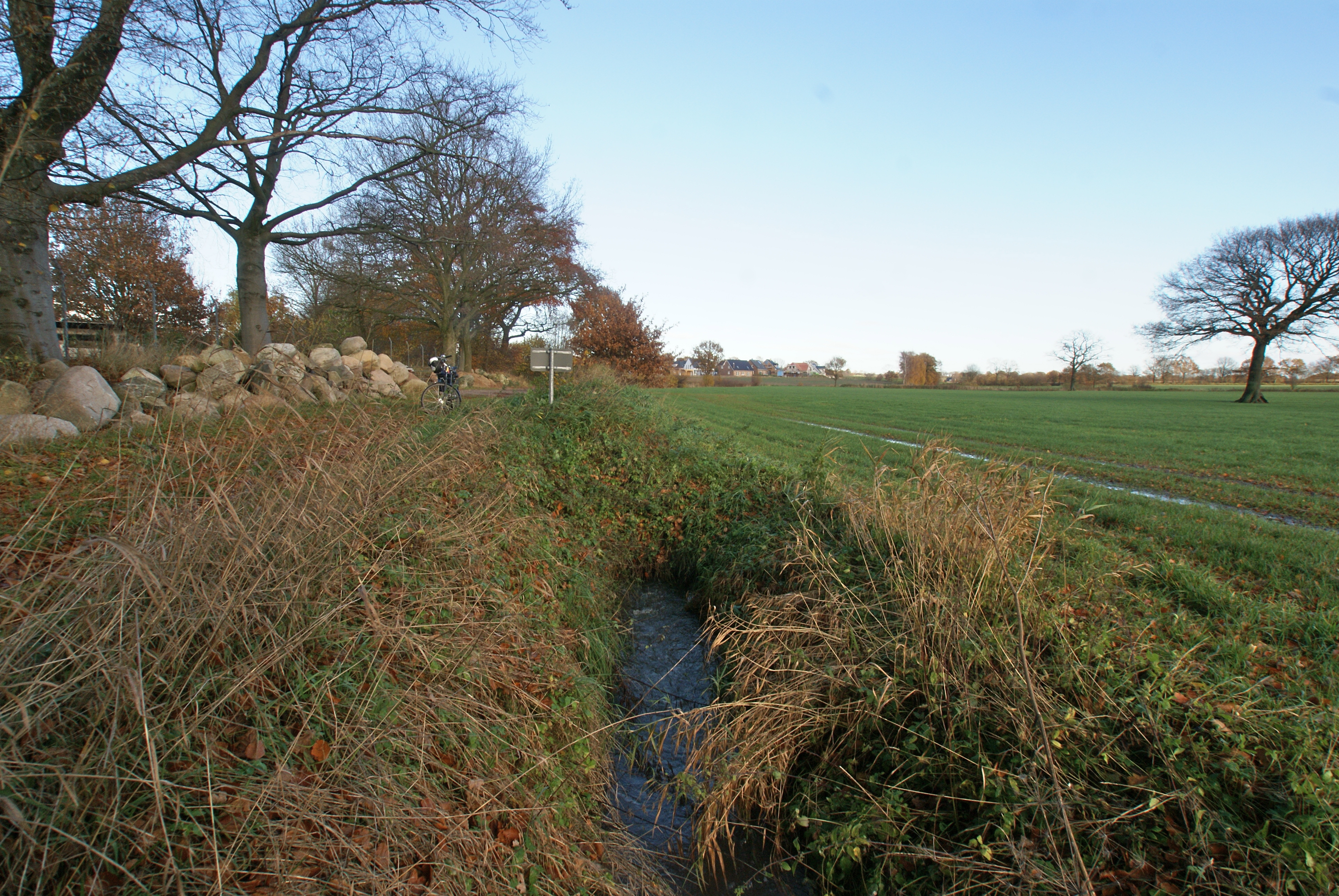 Kisdorf, Germany: Spring of the Krambek